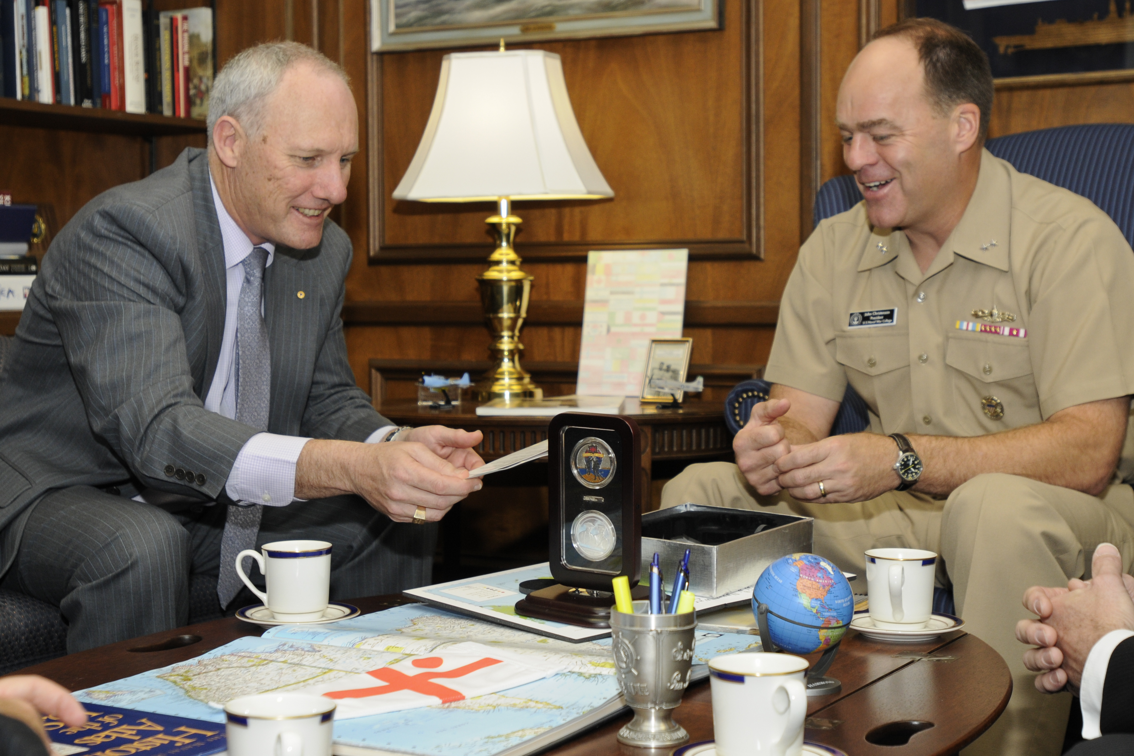 120928-N-LE393-020 NEWPORT, R.I. (Sept. 28, 2012) Royal Australian Navy Commodore Richard Menhinick, commandant of the Australian Command and Staff College, presents U.S. Naval War College (NWC) President Rear Adm. John Christenson, right, with an official gift containing sand from the Gallipoli battlefield. Menhinick was part of a team of faculty and students from the Australian Defence College participating in briefings and classes at the NWC. (U.S. Navy photo by Mass Communication Specialist 1st Class Eric Dietrich/Released)